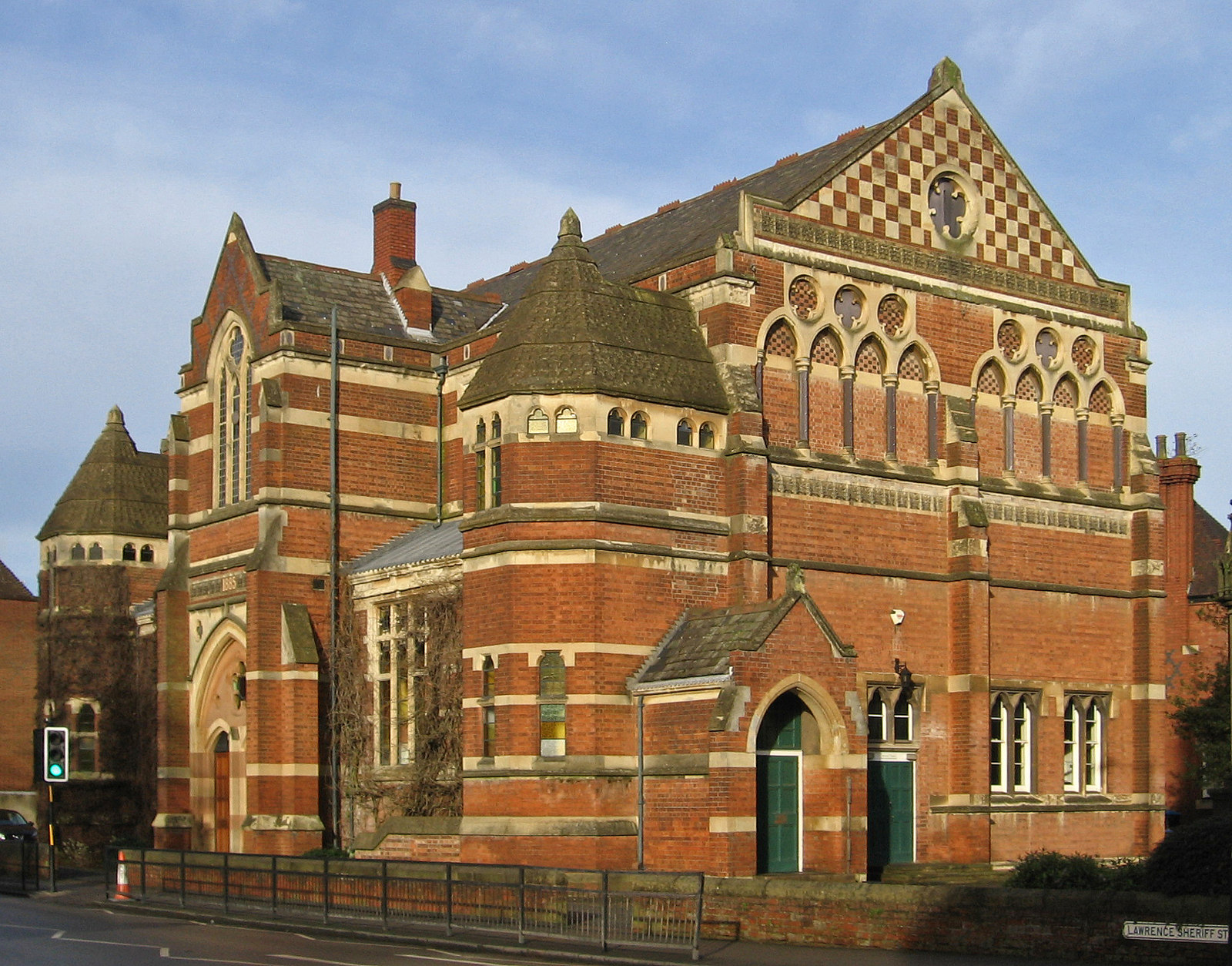 Rugby - Macready Theatre On Lawrence Sheriff Street. This theatre is part of Rugby School. Built in 1885 by William Butterfield as the "New Big School"